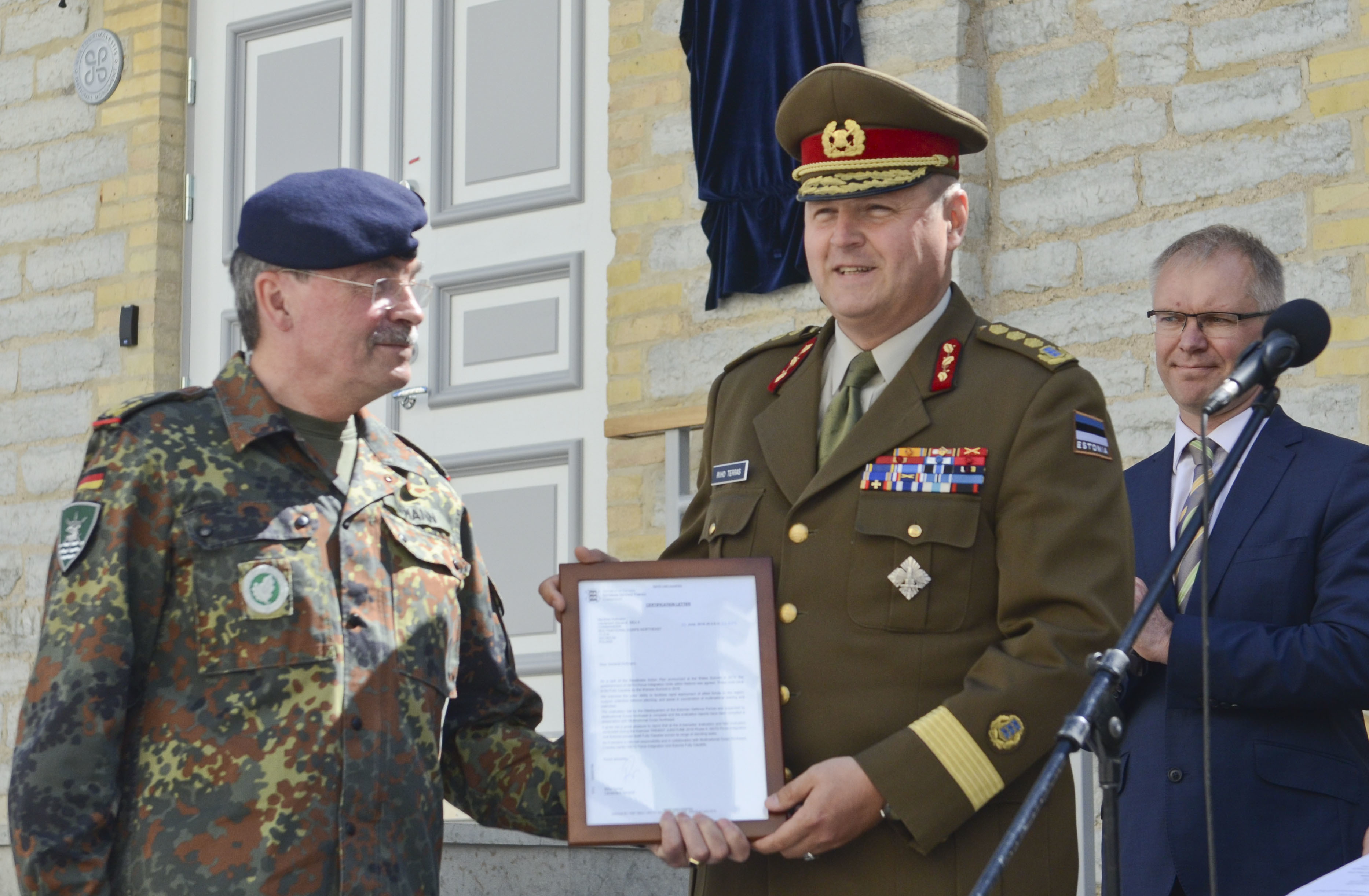 Estonian Lt. Gen. Riho Terras, the commander of the Defensive Forces of Estonia, presents a plaque to German Lt. Gen. Manfred Hofmann, commander of the Multinational Corps Northeast during the ceremony of the new NATO Force Integration Unit headquarters building in Tallinn, Estonia, June 13, 2016. The Estonian NFIU is one of six 40-person NATO headquarters established along the Alliance’s eastern flank. Designed and manned to facilitate the reception and movement of NATO and partner nation forces within the country they reside in, NFIU’s are part of NATO’s adaptation to a security environment dominated by a resurgent and aggressive Russia. (U.S. Army photo by Staff Sgt. Steven M. Colvin)